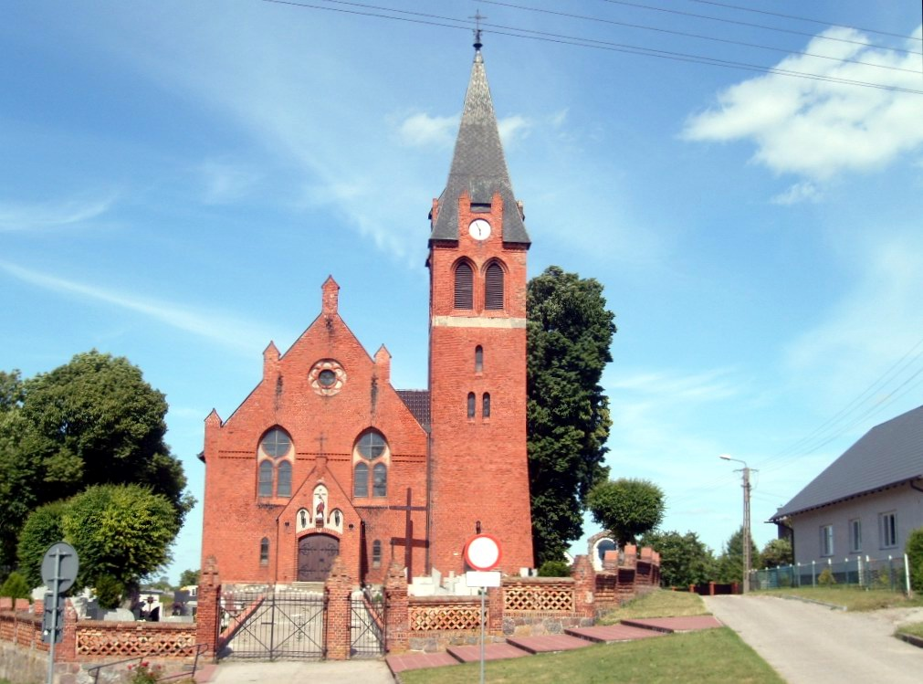 The church in Dąbrówka, Poland